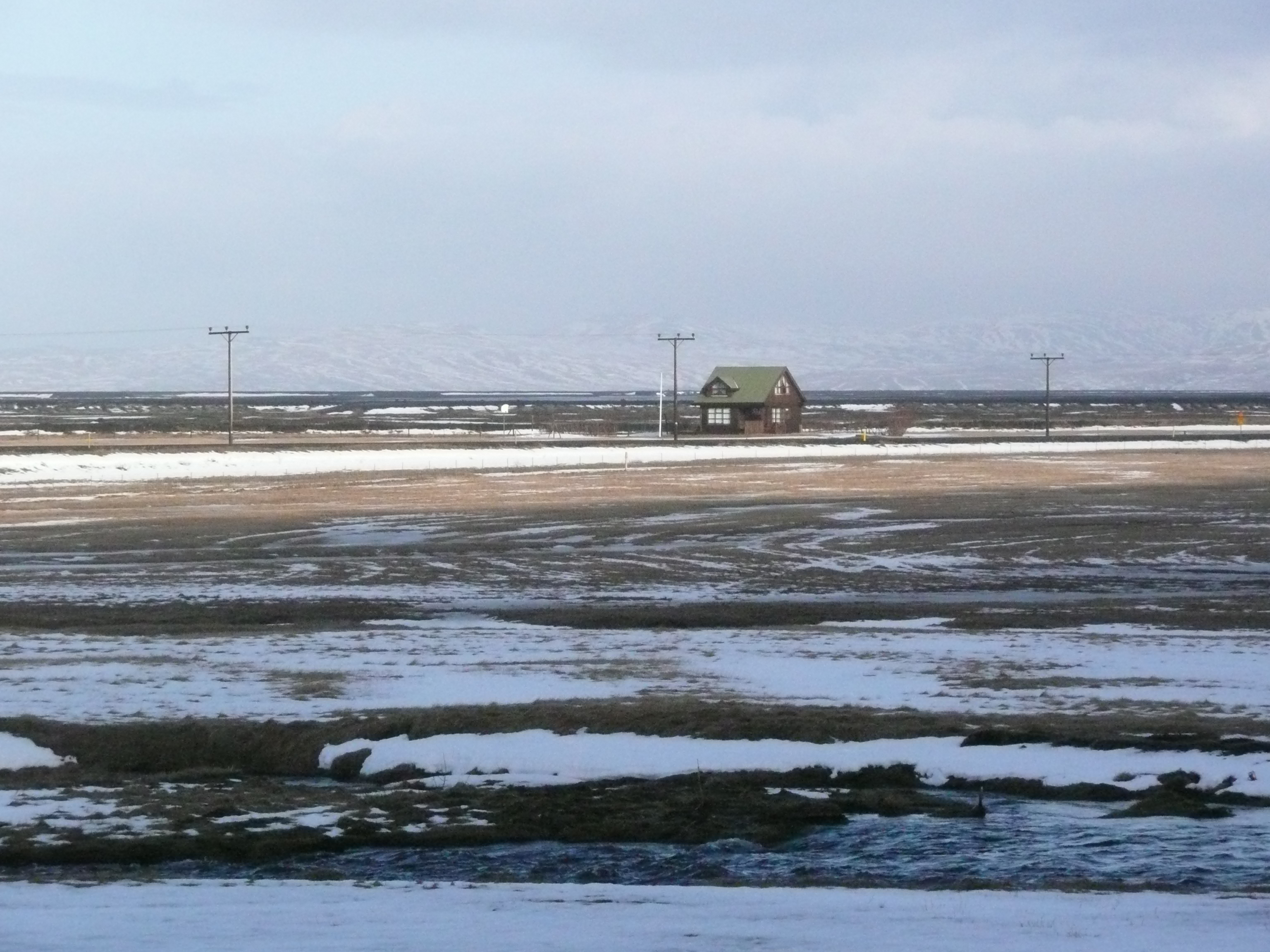 seljaland, south west iceland